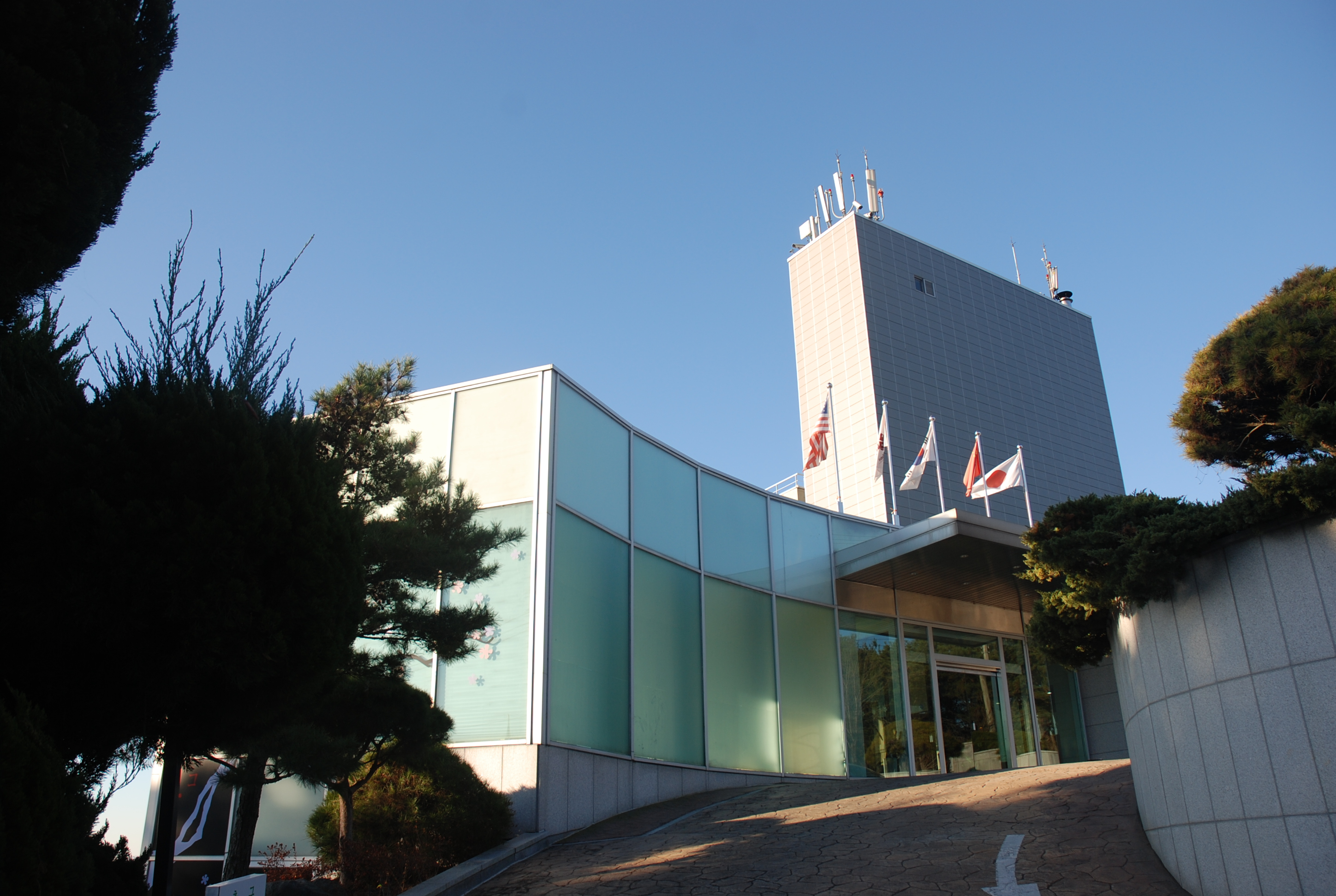 Asia Lake Side Hotel near Jinyang Lake at Jinju